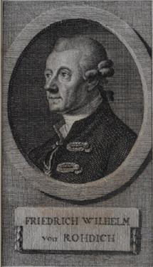 Portrait of Friedrich Wilhelm von Rodich ( 1790). Commander of the regiment Garde du Corps ; 1787 Heads of State and Secretary of War ; 1794 Prussian general of Infantry.